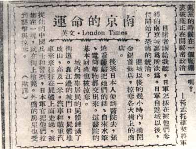 A shanghai newspaper reporting about the Nanking Massacre in 1937. 12